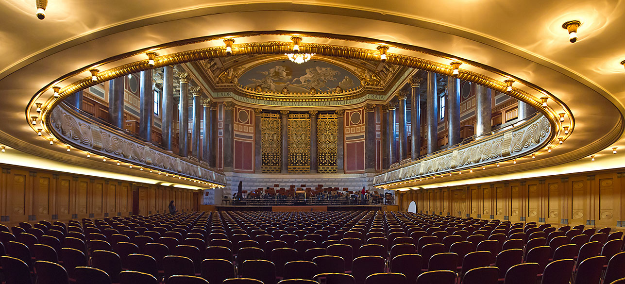 Friedrich-von-Thiersch-Saal in Kurhaus Wiesbaden, Germany